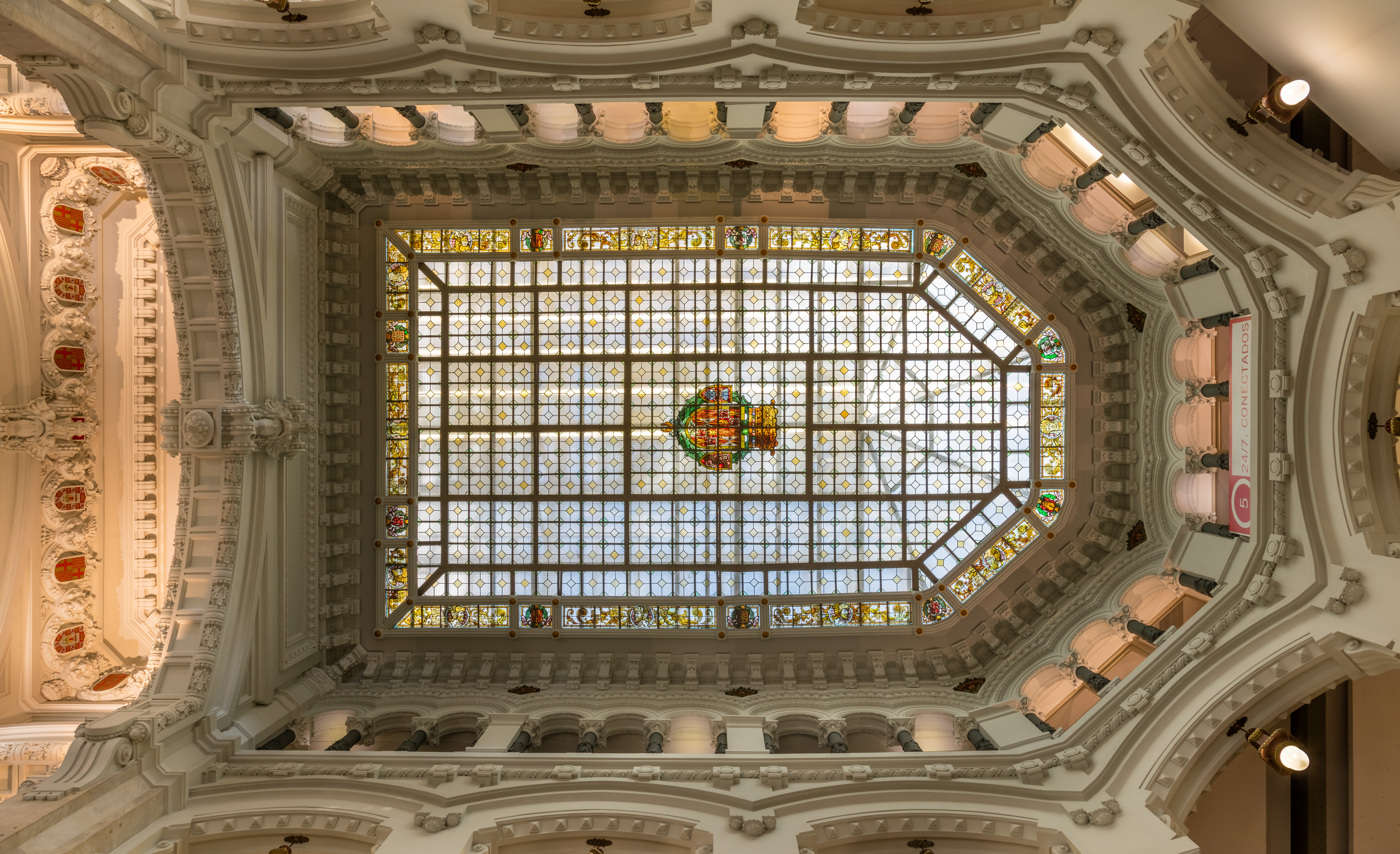 Skylight in the Cybele Palace or Palace of Communication, located on the Plaza de Cibeles, Madrid, Spain. The building, one of the landmarks of Spain's capital, was inaugurated in 1919 as headquarters of the Spanish postal and telecommunications service (Correos). The building was designed by Antonio Palacios and Joaquín Otamendi. Today the building is seat of the City Council.